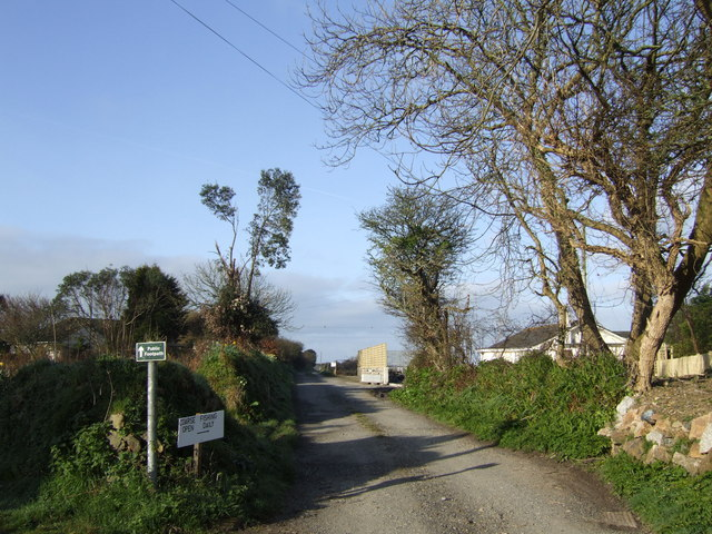 Road to Tregear The farm road also takes the footpath from Garras to Tregear and on westwards to Little Polwyn.